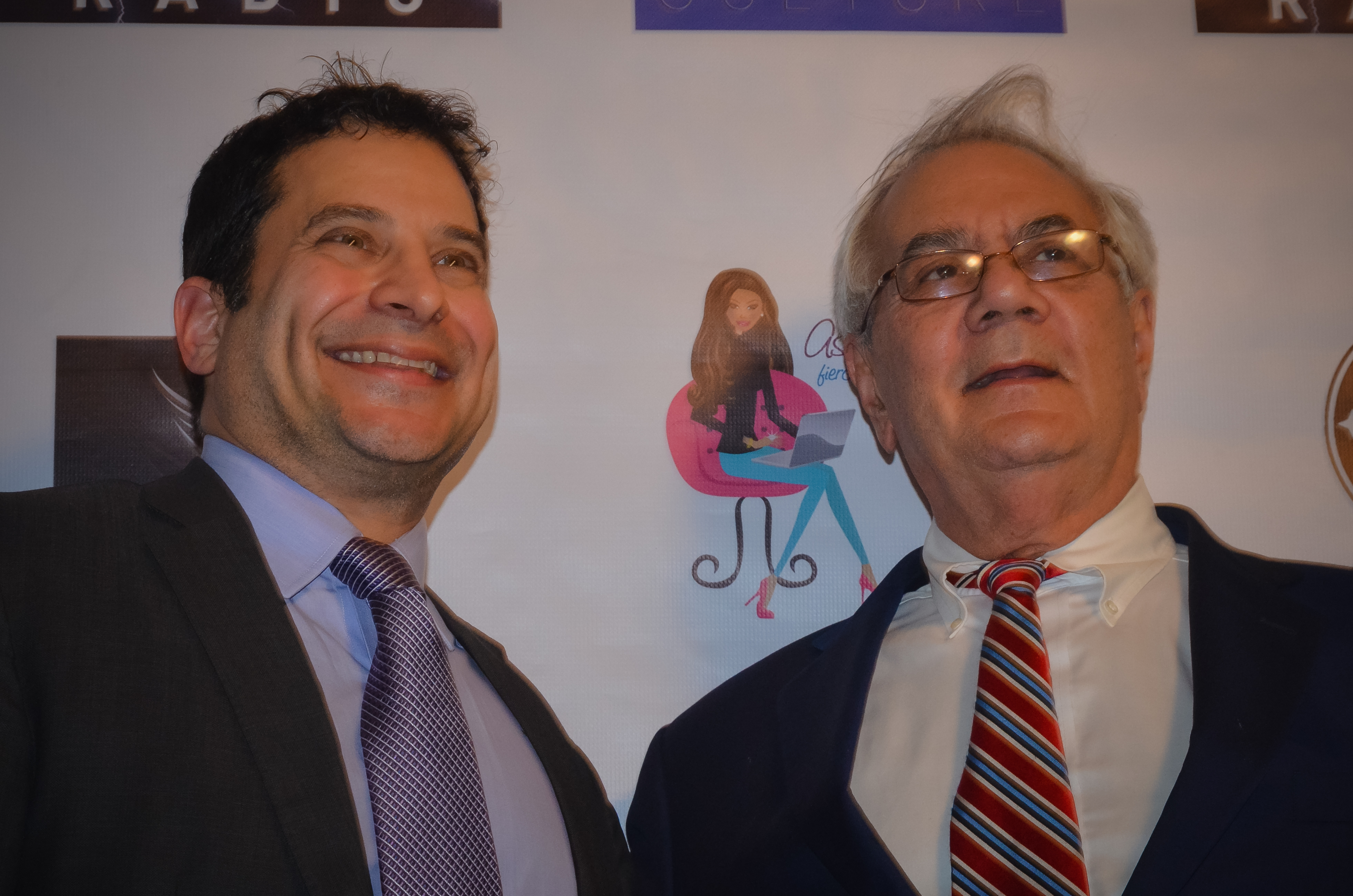 Mark Levine and Rep. Barney Frank at We Act Radio anniversary, 2012.